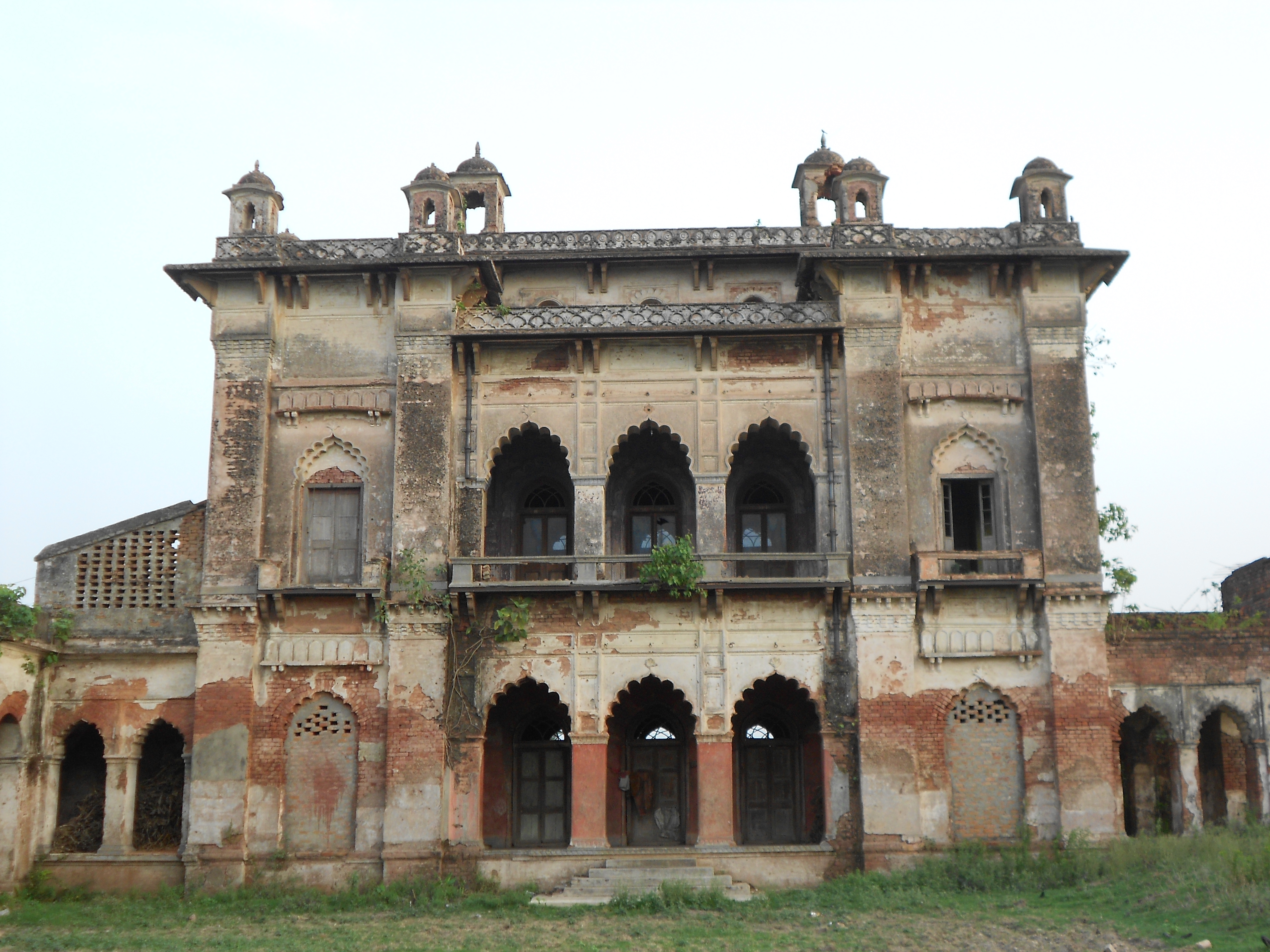 Photo taken by me at sonbarsa raj, saharsa